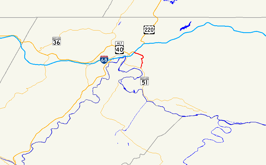 Map of Maryland Route 639